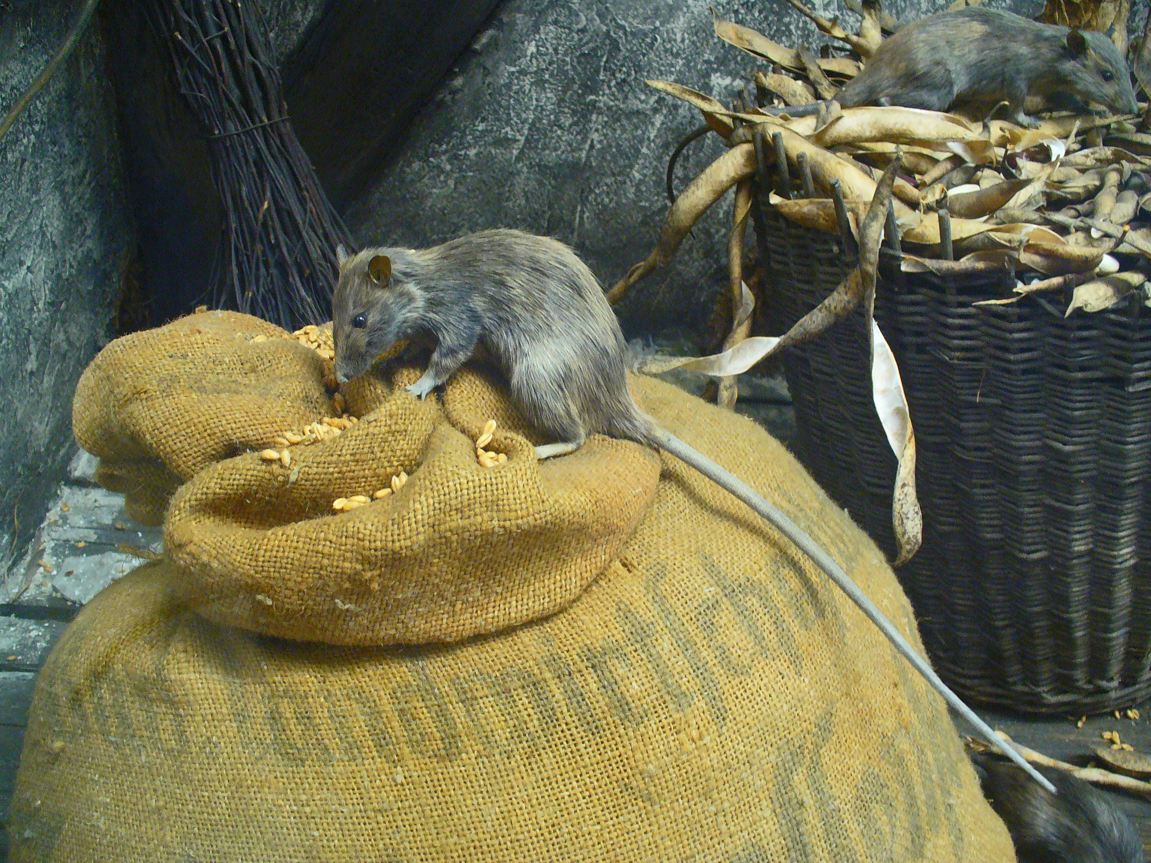 Rattus rattus, Muridae, Black Rat, Ship Rat, Roof Rat, House Rat, Alexandrine Rat, Old English Rat; Staatliches Museum für Naturkunde Karlsruhe, Germany.